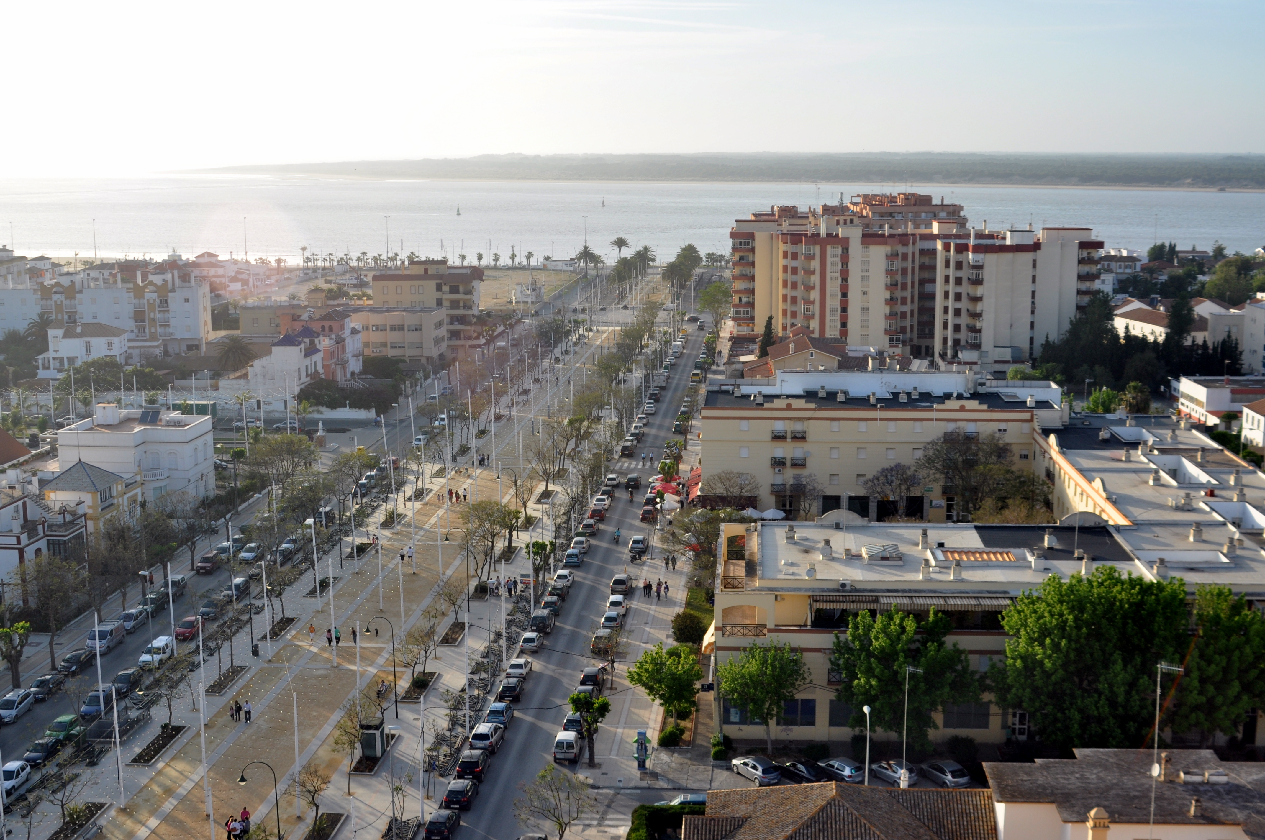 View of the Calzada del Ejército (avenue) and the mouth of Guadalquivir River in Sanlúcar de Barrameda, Cádiz, Spain. Picture taken from the top floor of Guadalquivir Hotel.